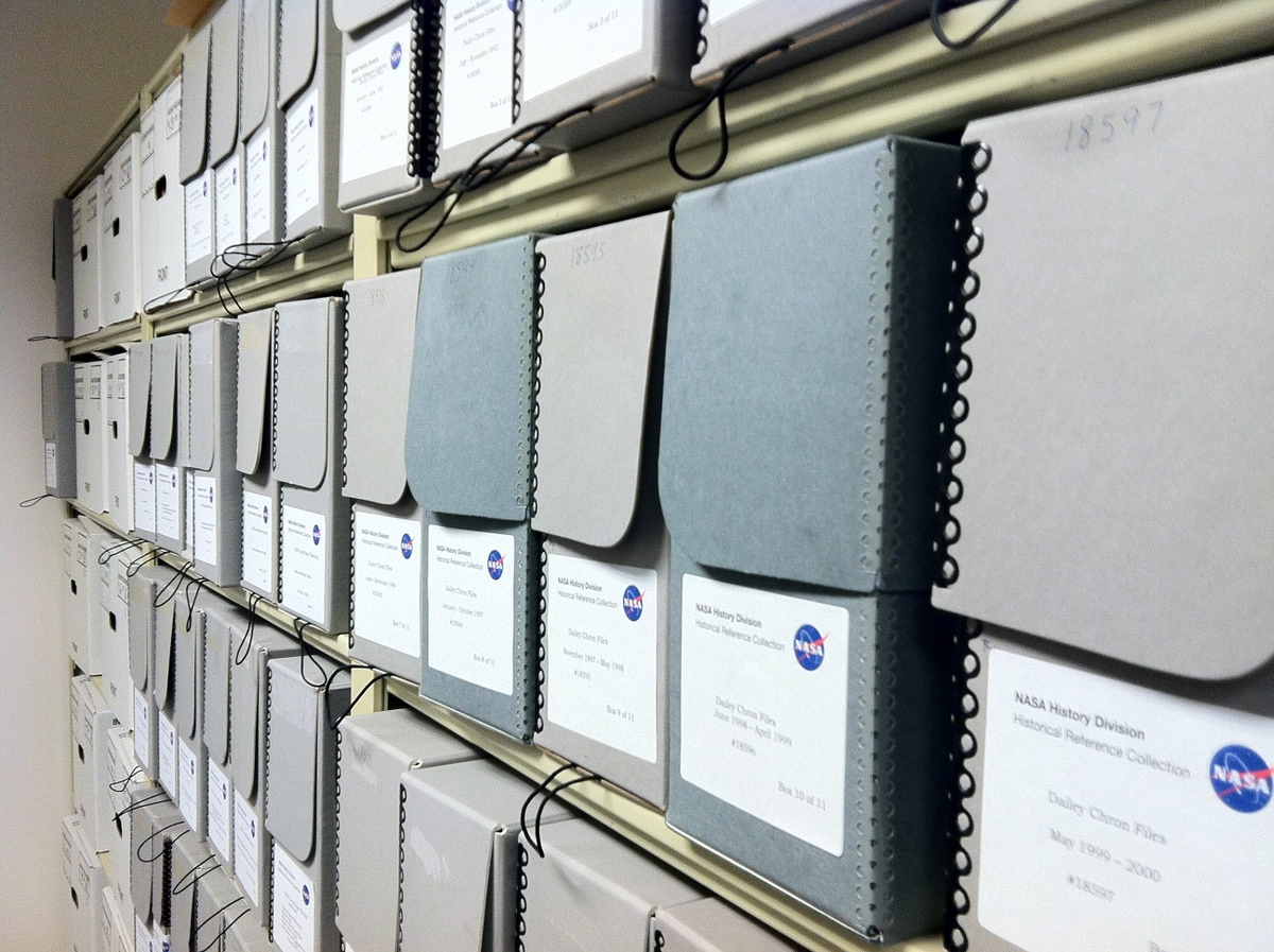 shelves of archive boxes in the history office at NASA headquarters, Washington DC